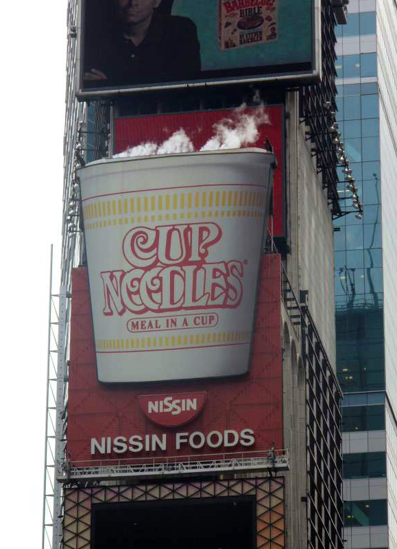 the cool thing about this you don't realise is that the steam from the cup is actually real. So. Cool.